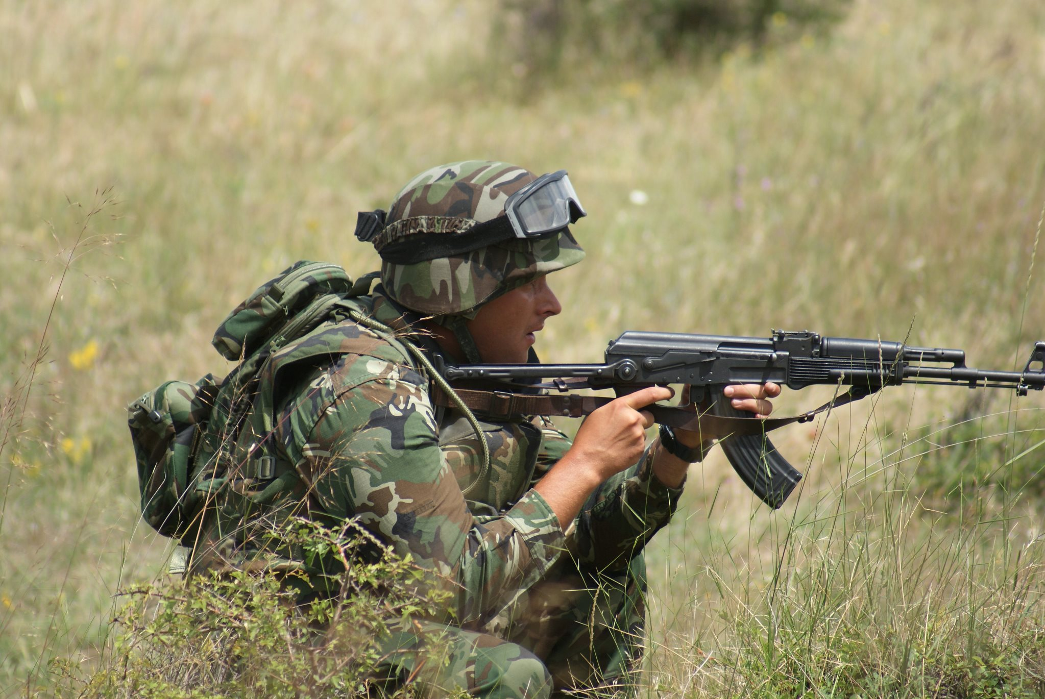 BSRF-13